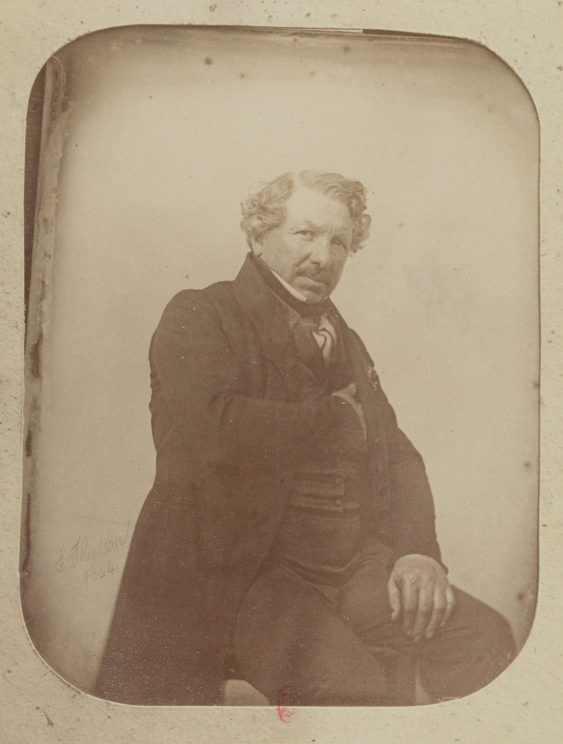 Portrait of Louis Daguerre (1787-1851)